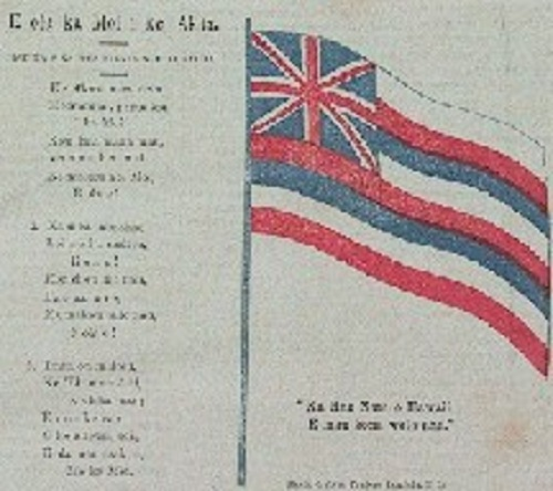 E Ola Ka Mōʻī i Ke Akua or E Ola Ke Aliʻi Ke Akua First Hawaiian National Anthem. Ka Nūpepa Kūʻokoʻa. Reprinted. Jan. 7, 1871.